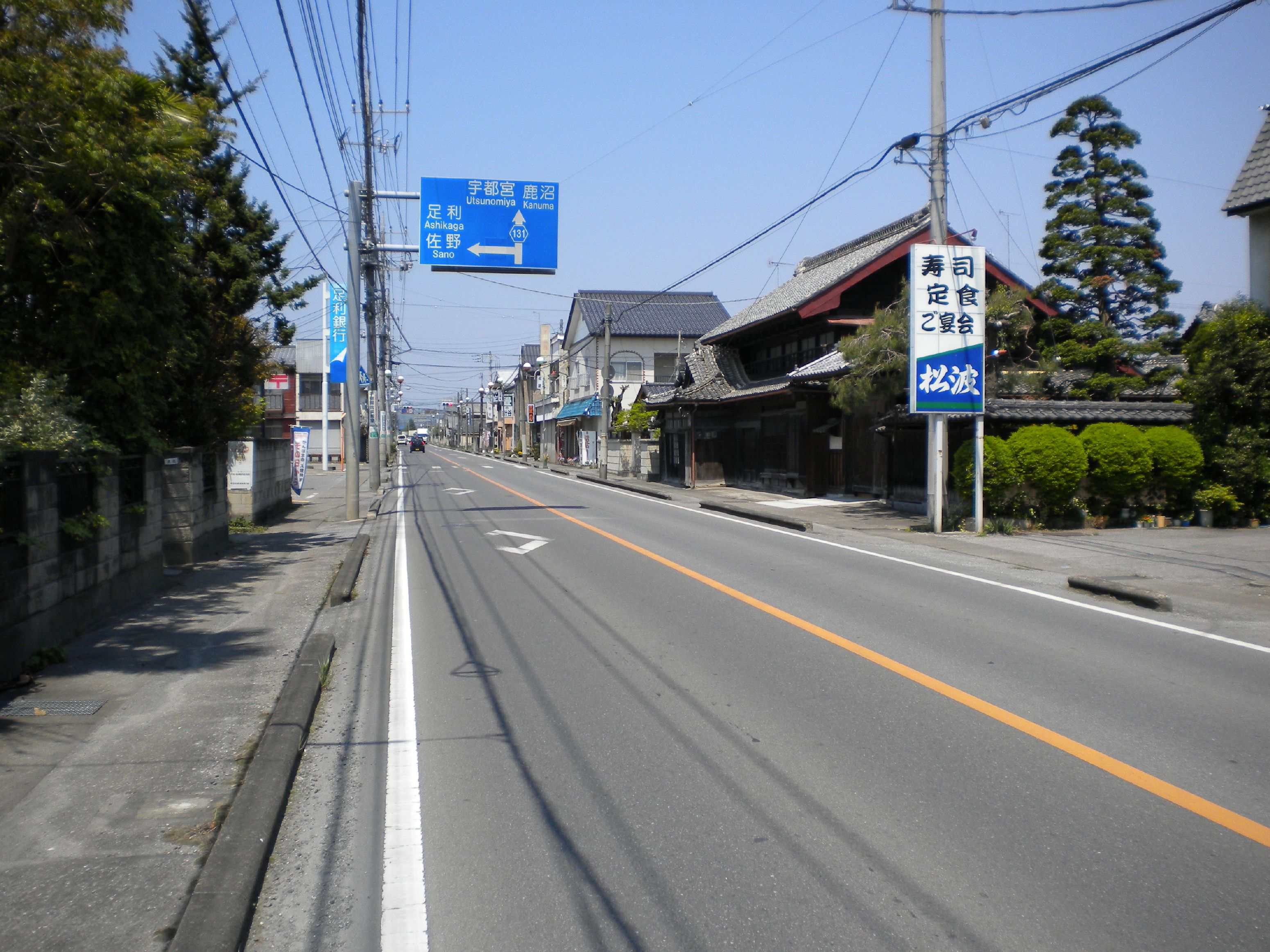 Tochigi prefectural road No.131 on Nishikata town